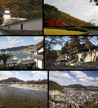 Tatsuno montage